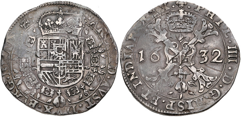 LOW COUNTRIES, Brabant. Filips IV van Spanje. 1621-1665. AR Patagon (41mm, 28.05 g, 4h). Brussels mint. Dated 1632. Crowned coat-of-arms within Order of the Gsee permissionsolden Fleece / Crowned cross fleury with Golden Fleece in lower angle. KM 53.3; Davenport 4462. VF, toned, some flatness.